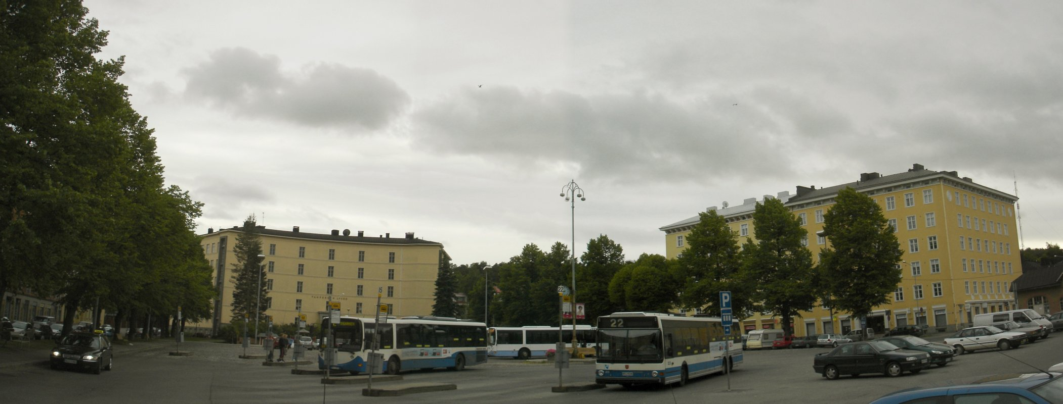 Pyynikintori square in Tampere